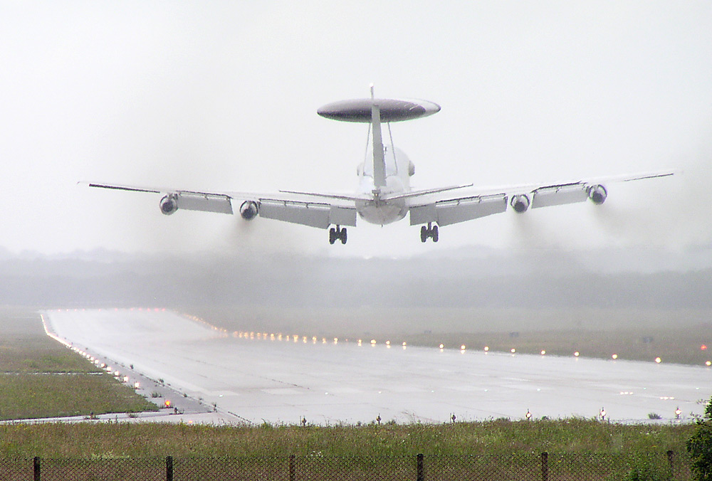 NATO Boeing E-3A AWACS crosswind landing. Note that the airplane fuselage is skewed relative to the runway.